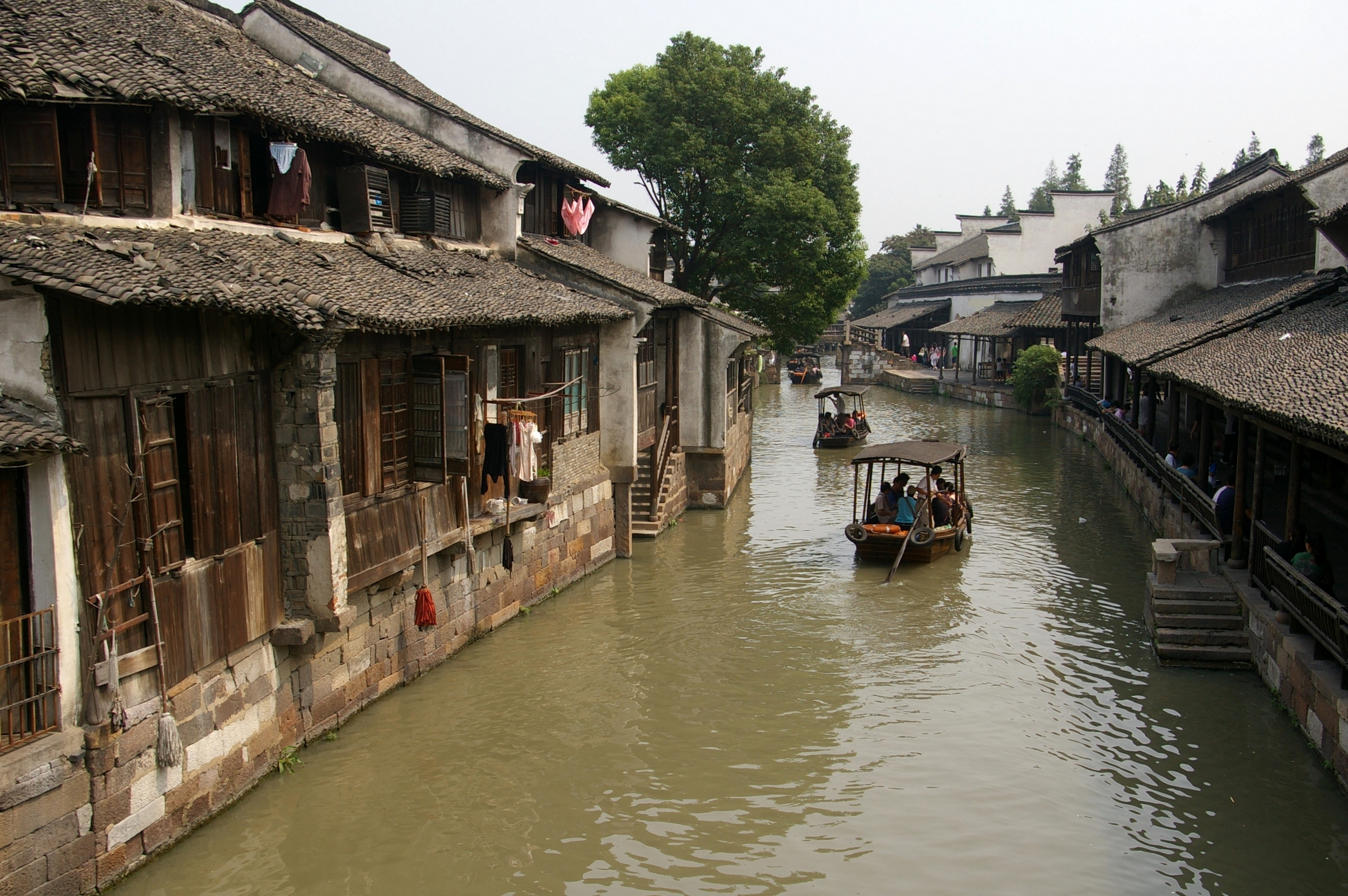 Wuzhen town